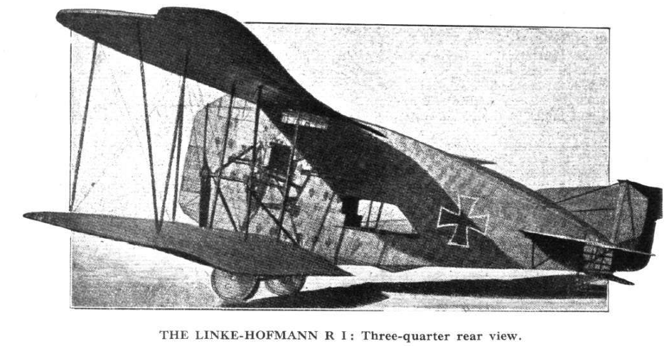 Linke-Hofmann R1, aircraft number 40/16, side three-quarter view.